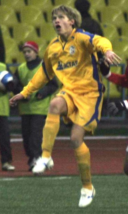 Alexandr Stavpets as a player of FC Rostov